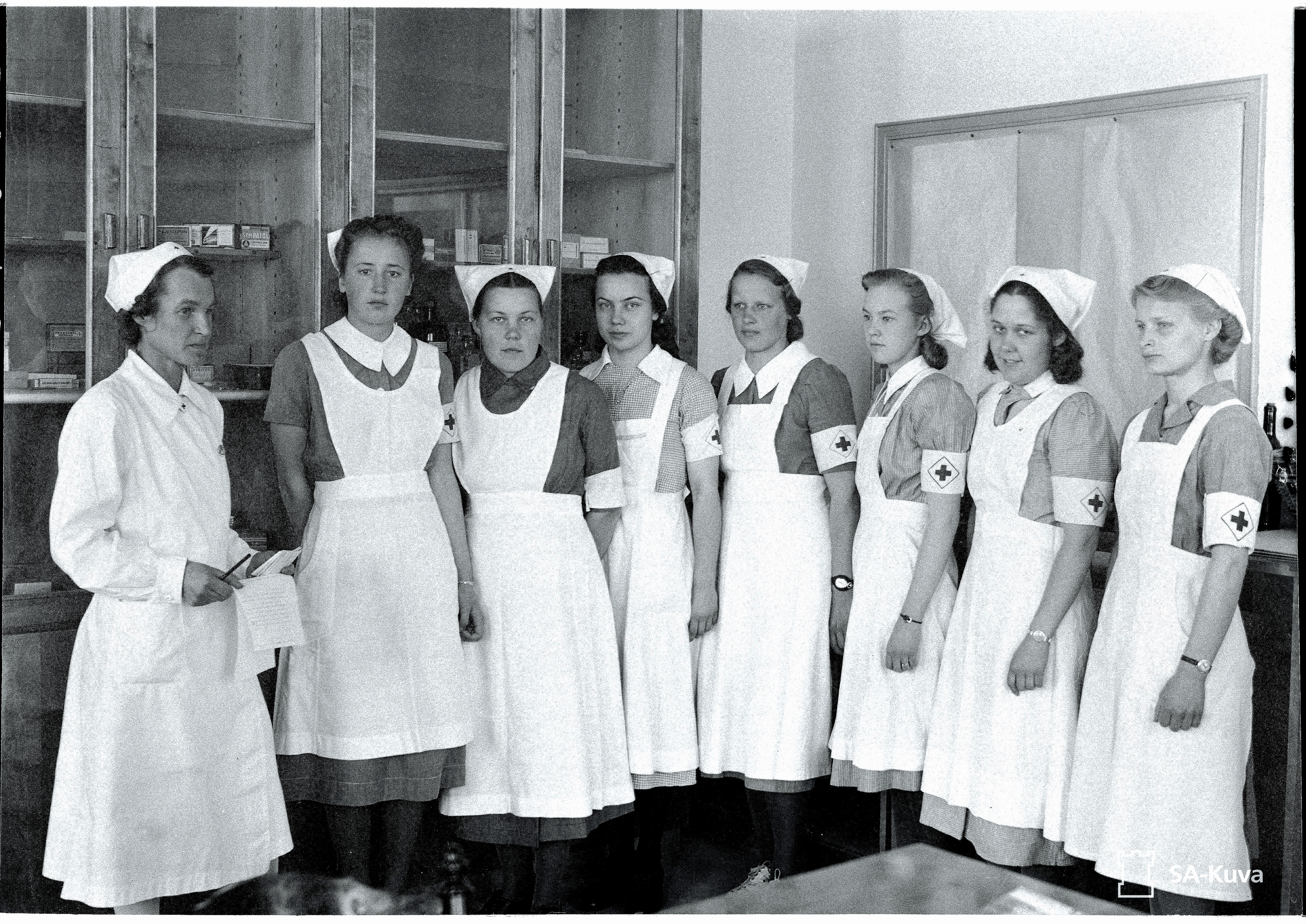 Finnish Red Cross assistant nurses award ceremony during the Continuation War. June 3th 1942. SA-kuva.